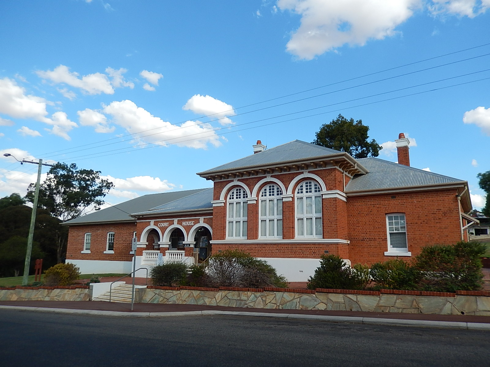 Old courthouse building, now used by the Shire of Toodyay as its administrative centre